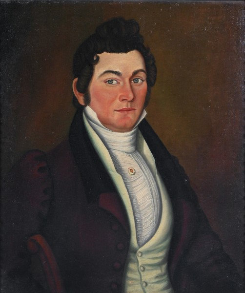 One of a pair of portraits